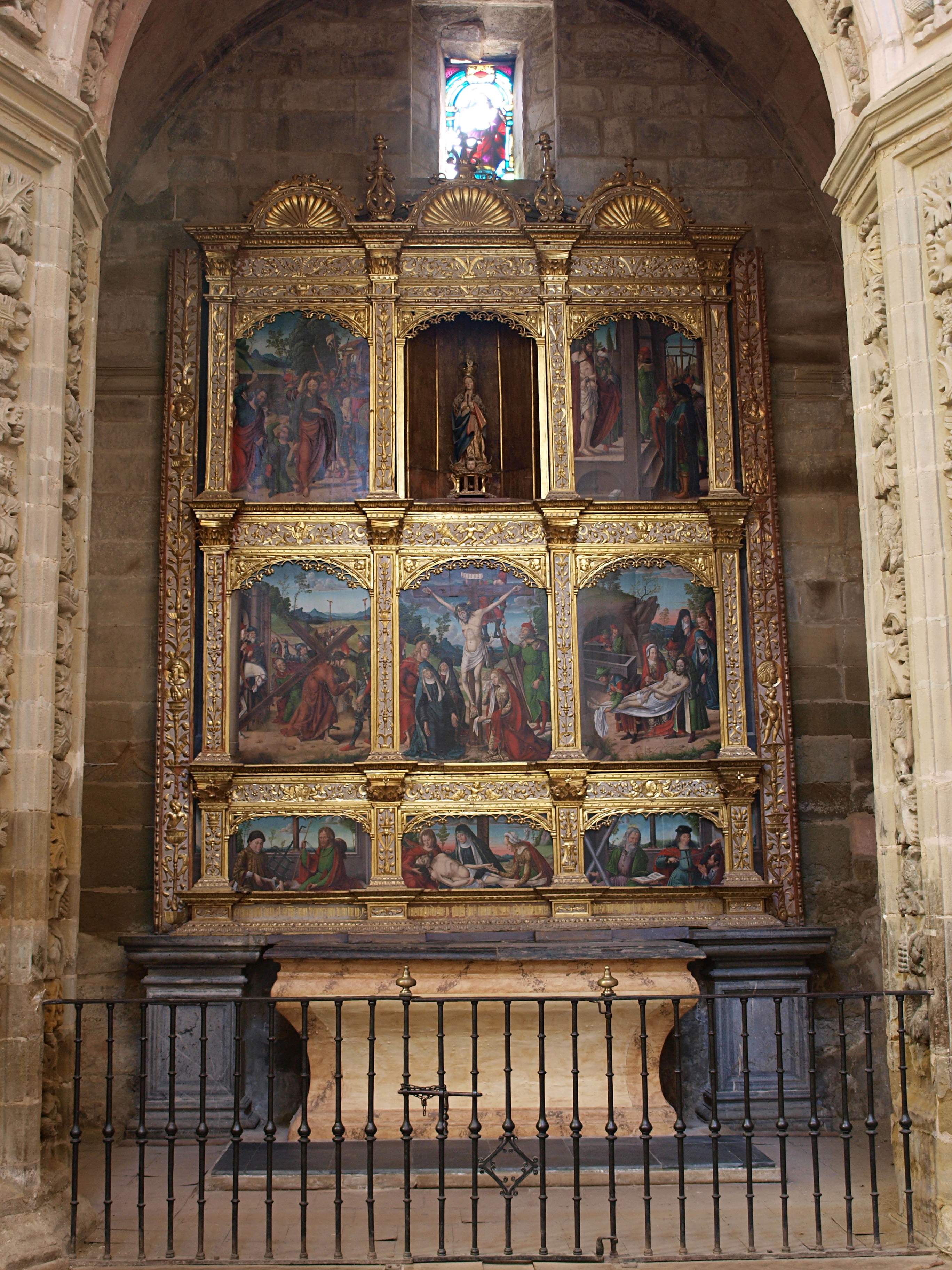 Astorga Cathedral, Astorga (Province of León, Spain).